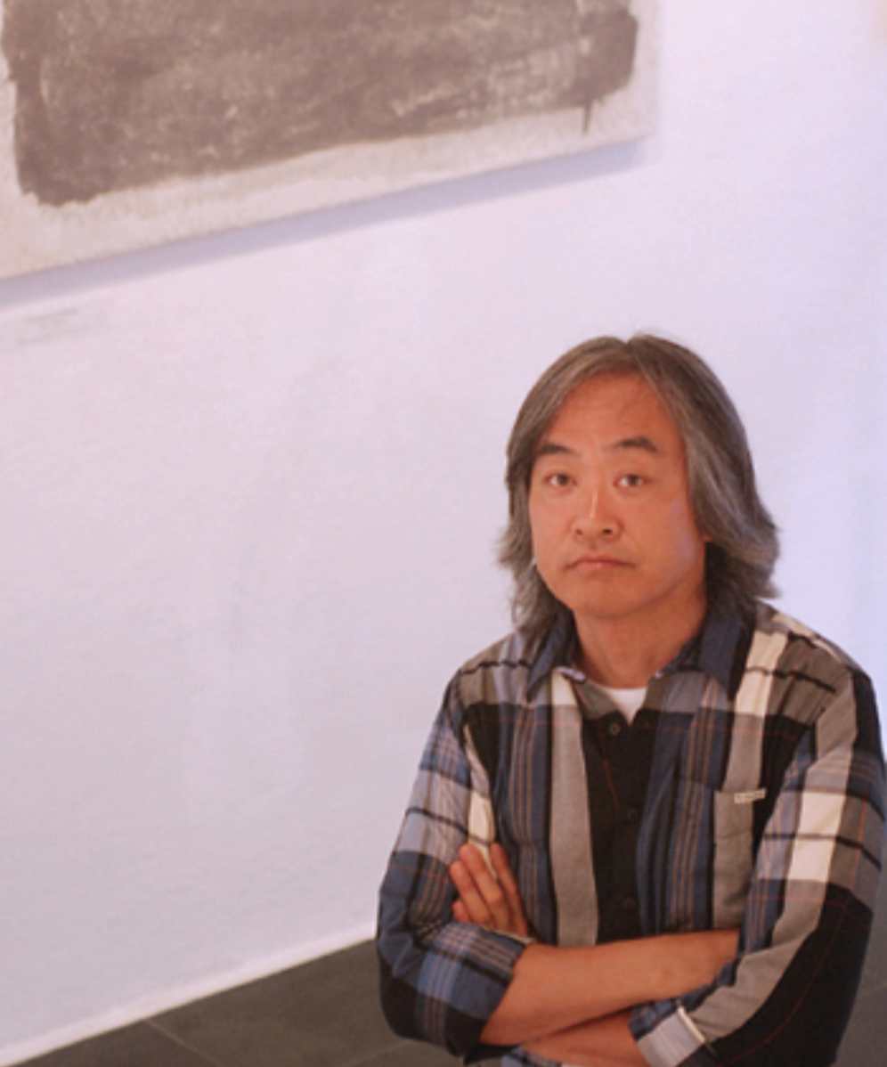 Takeshi Motomiya at his 2012 exhibition at Encant Gallery